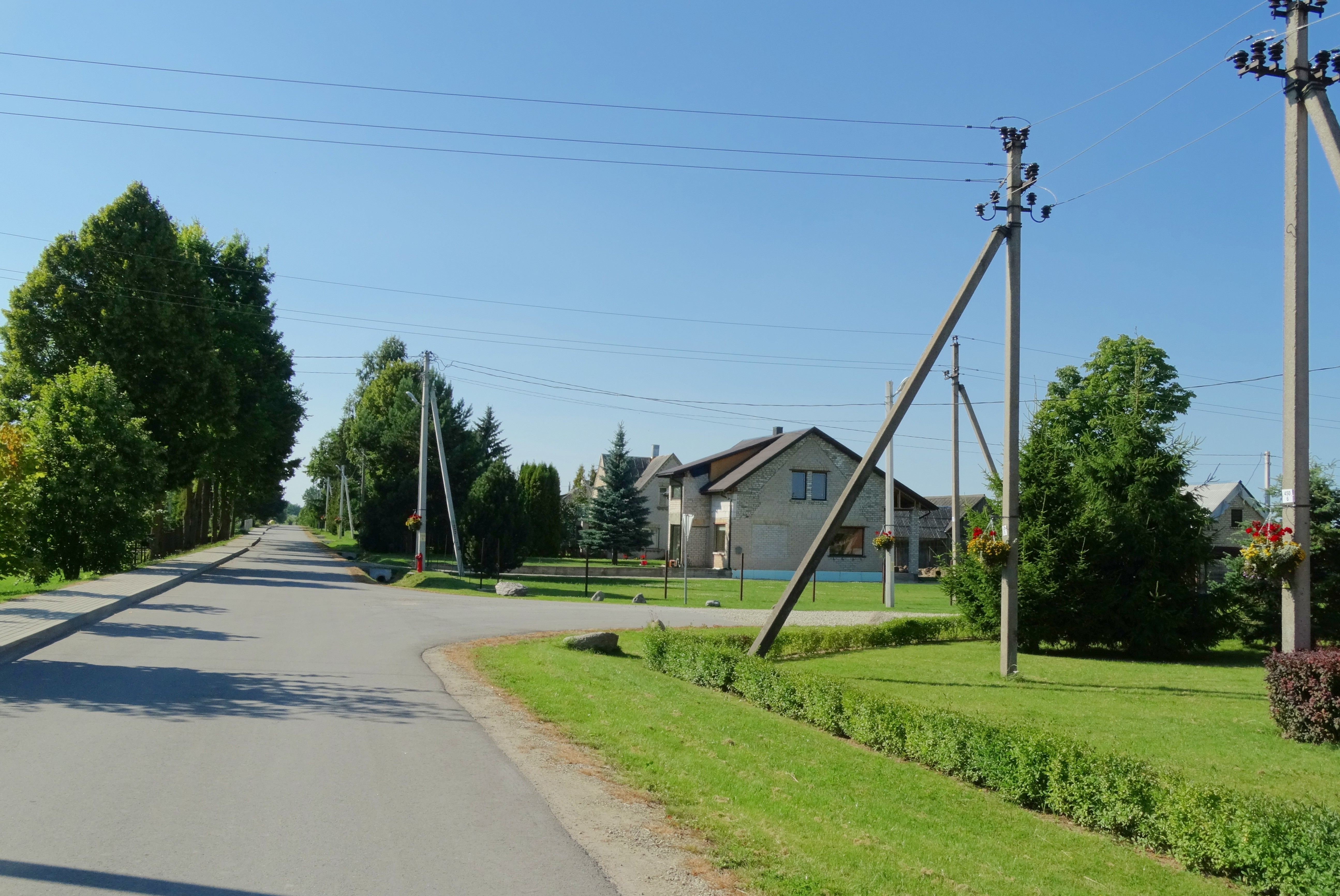 Satkūnai, Joniškis District, Lithuania